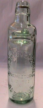 The South Australian Cordial and Aerated Water Factory was established by A.M. Bickford & Sons in 1874. This "marble bottle" was used to contain their products